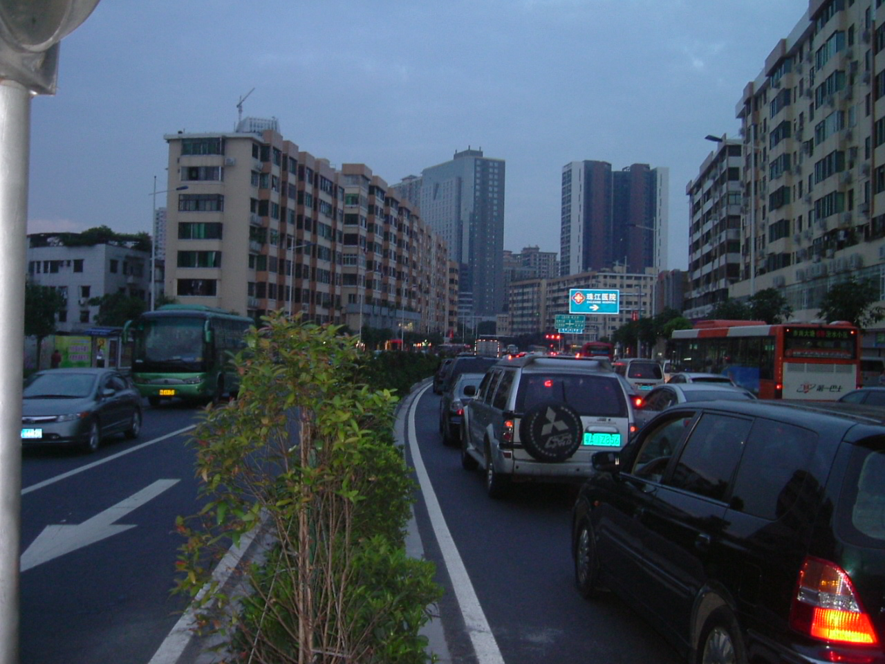 Changgang Road，Canton